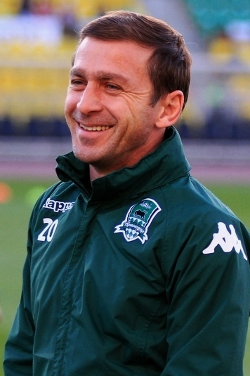 Ruslan Adzhindzhal